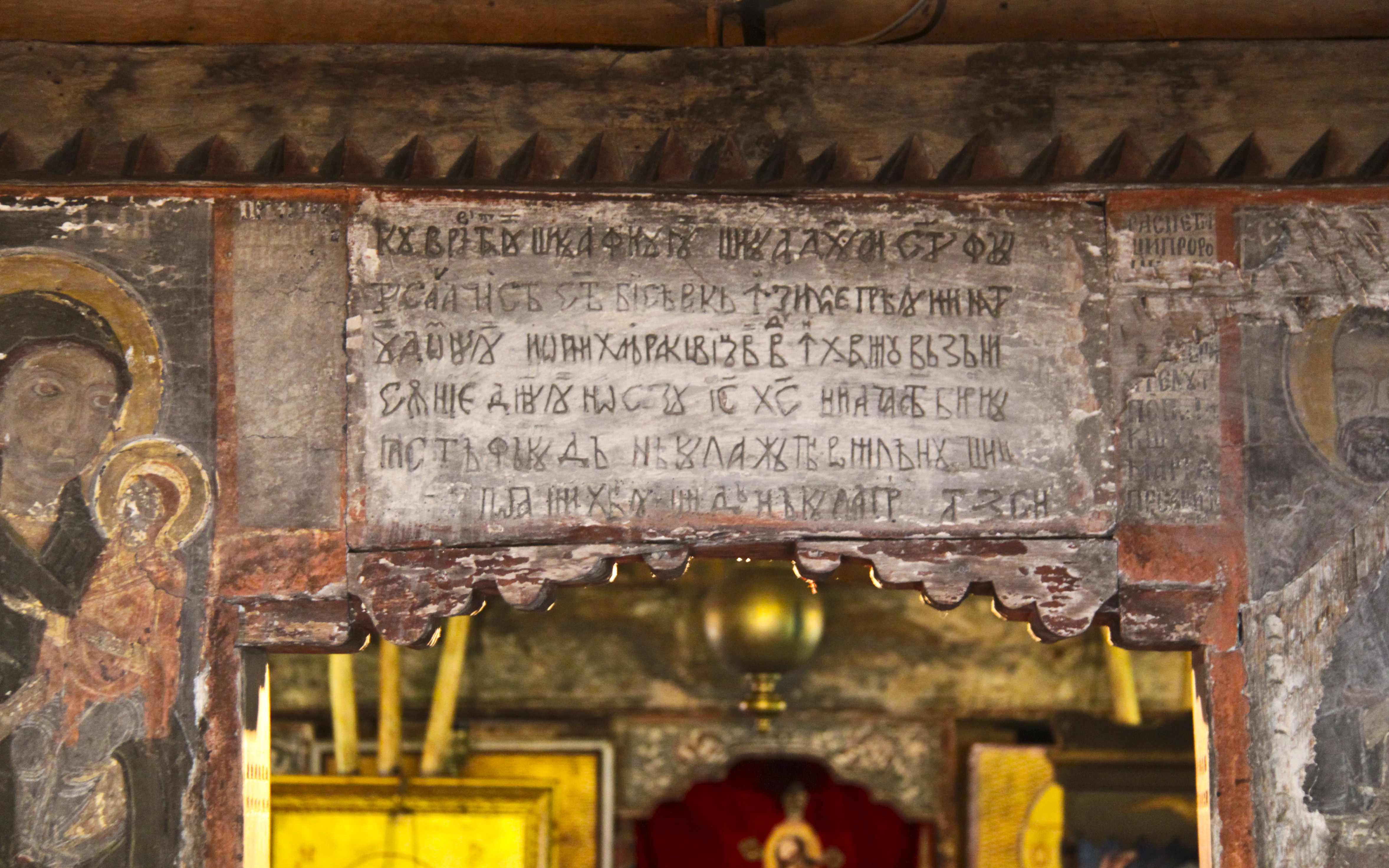 Jupâneşti, Argeş county, Romania: the wooden church, inscription above door inside narthex.